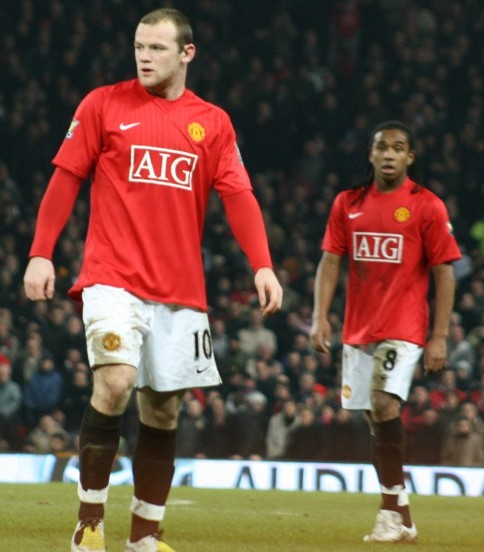 Wayne Rooney and Anderson